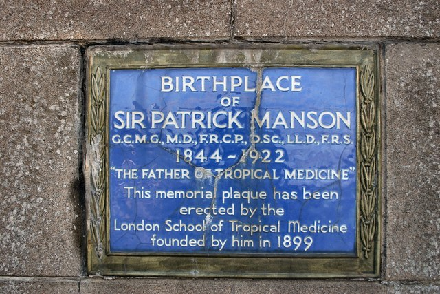 Plaque on the birthplace of Patrick Manson in Oldmeldrum. Sir Patrick was one of Scotland's greatest medical scientists.